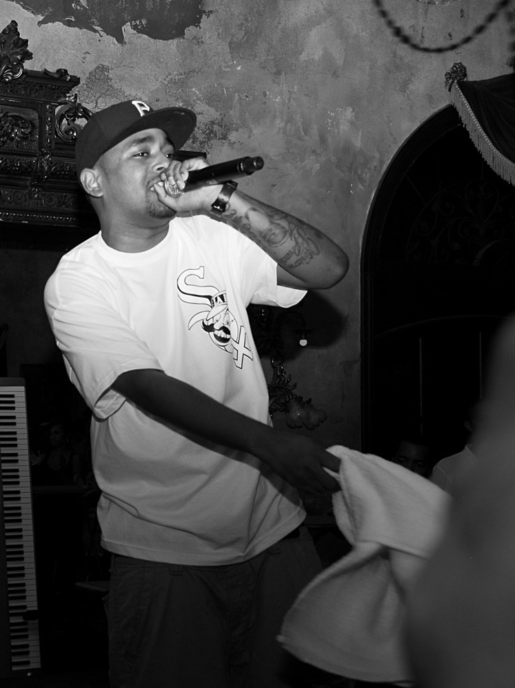 Cropped version of File:SkemeLArapper